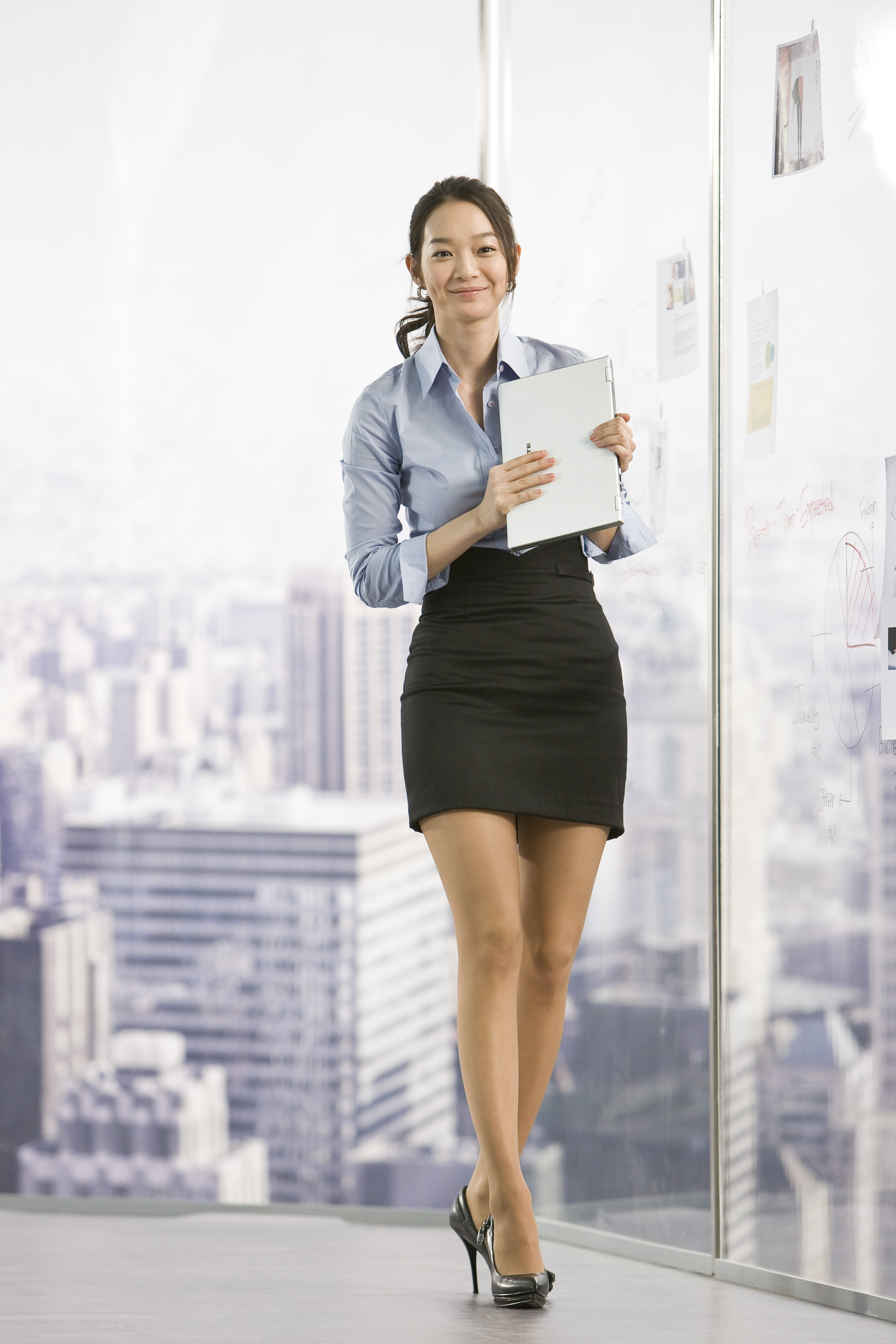 LG엑스노트 X300’의 CF 매직(Magic)편